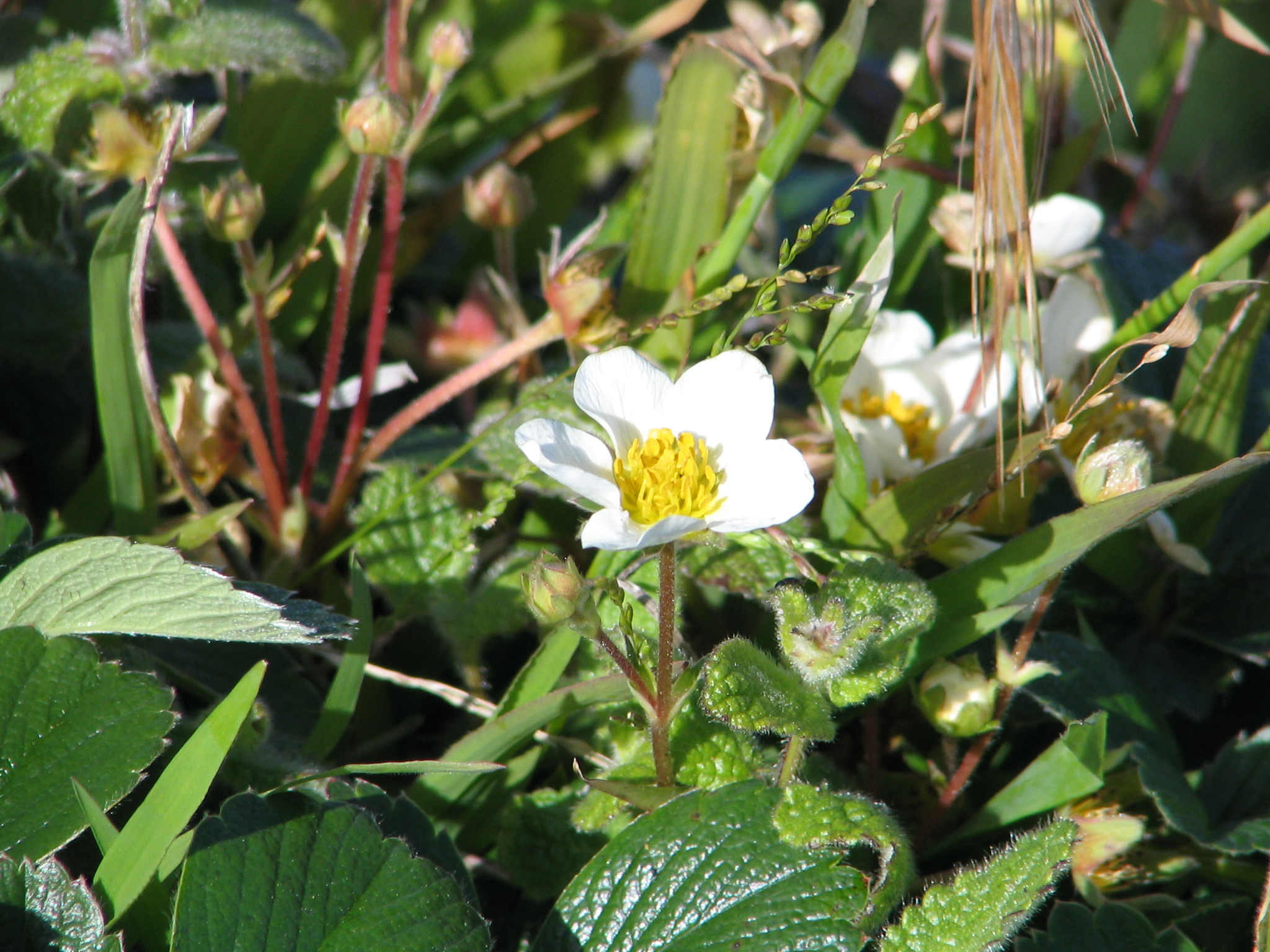 Fragaria chiloensis — Beach strawberry. Near Battery Marcus Miller at the San Francisco Presidio.